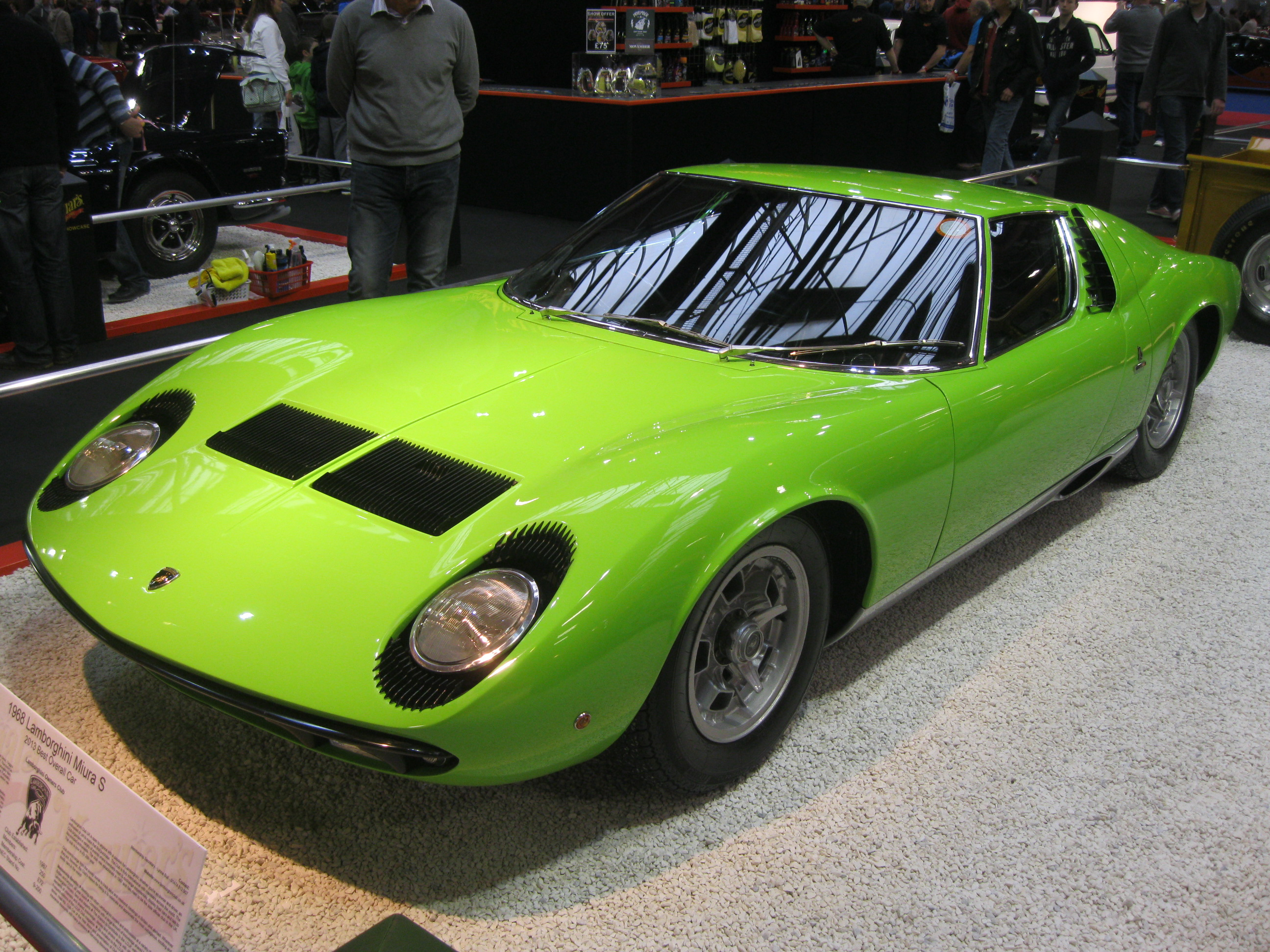 Exhibited at the NEC Birmingham Classic Car Show, November 15-17, 2013